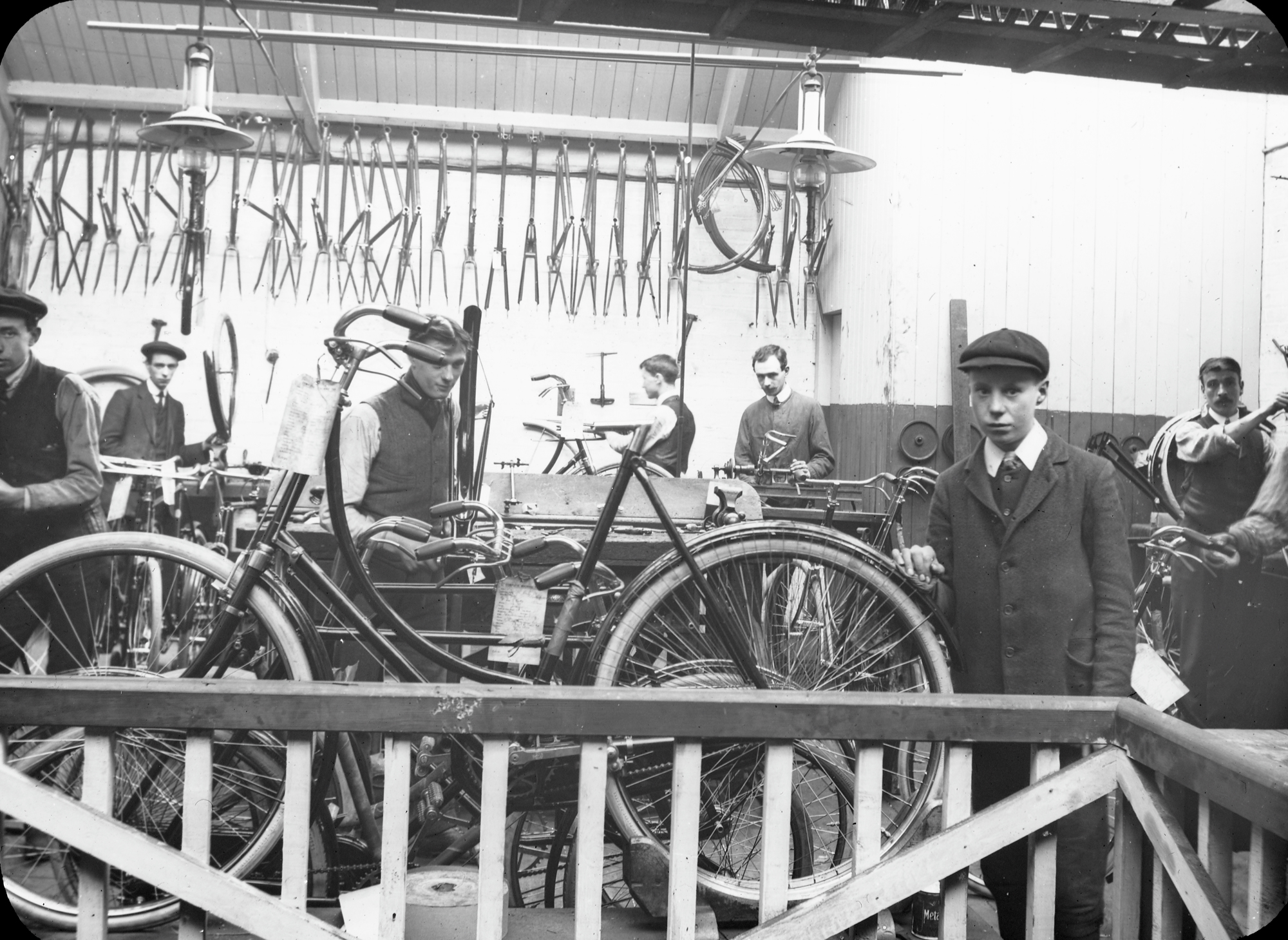 Hard at work assembling bicycles at a firm called O'Neill's. That young lad looks terrified. Do you know where this firm was? As usual, any and all information about this lantern slide will be entertained, brought out to dinner, and then put in a taxi home... Date: Circa 1890-1910 NLI Ref.: M55/11 This photograph features in our Working Lives, 1893-1913 exhibition at the National Photographic Archive in Temple Bar, Dublin.